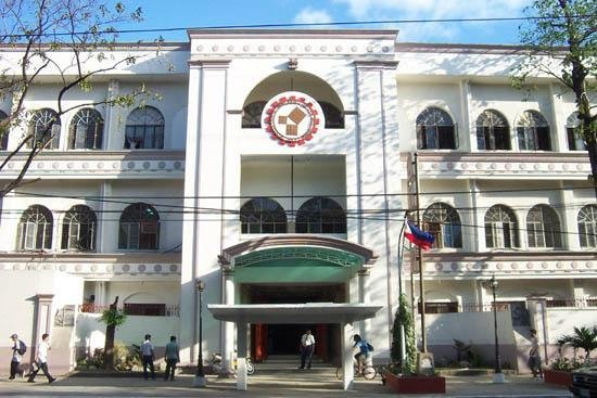 TUP Face